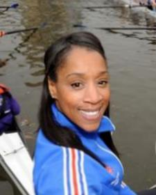 Former Olympic athlete Diane Modahl visited Salford Quays this week to officially launch the 2009 Two Cities Boat Race, which takes place on Sunday 10 May. To request this photo in high resolution, email its name to with your intended usage.